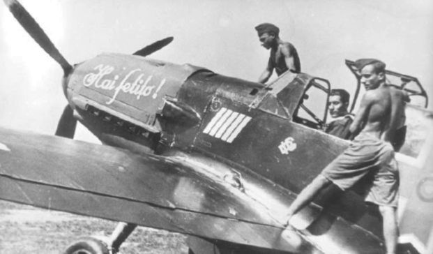 Ioan Dicezare in the cockpit of Messerschmitt Bf 109E Hai fetițo! (C'mon girl! - name of a racehorse), 1942